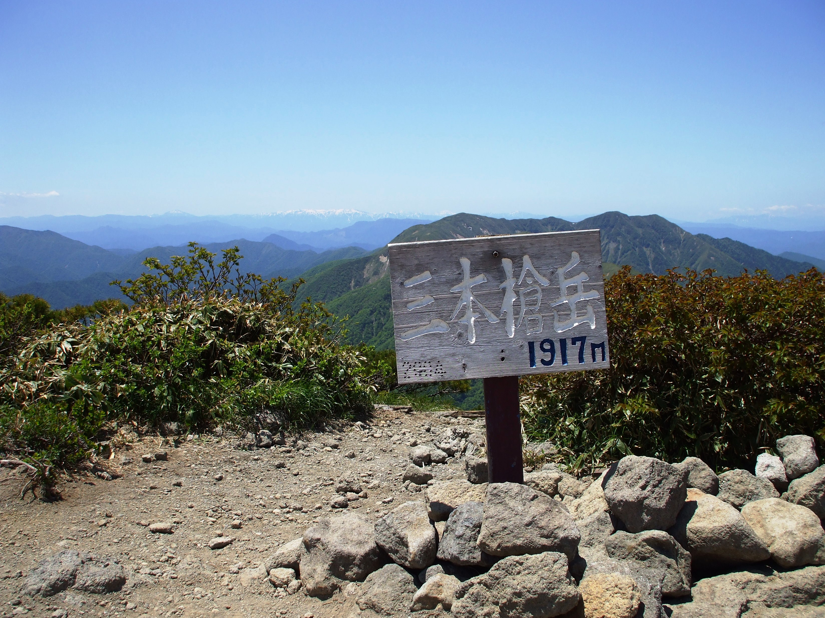 At the top of Sanbonyari Peak, the highest peak of Nasu Mountains, Honshu, Japan.